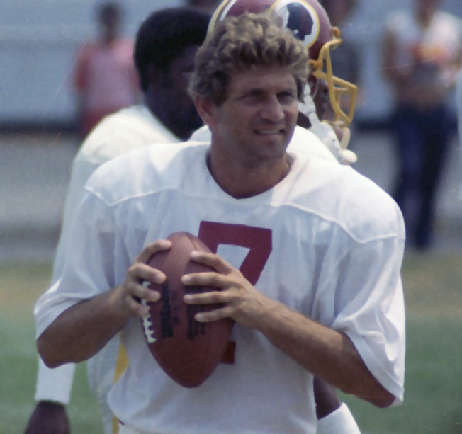 Picture of Joe Theismann on Washington training camps in 1983.